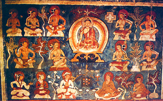 "Akshobya in His Eastern Paradise with Cross of Light", fresco in the Three-Level-Temple of Alchi (Sumtsek Temple), Ladakh, West Tibet, 11th c. A.D.